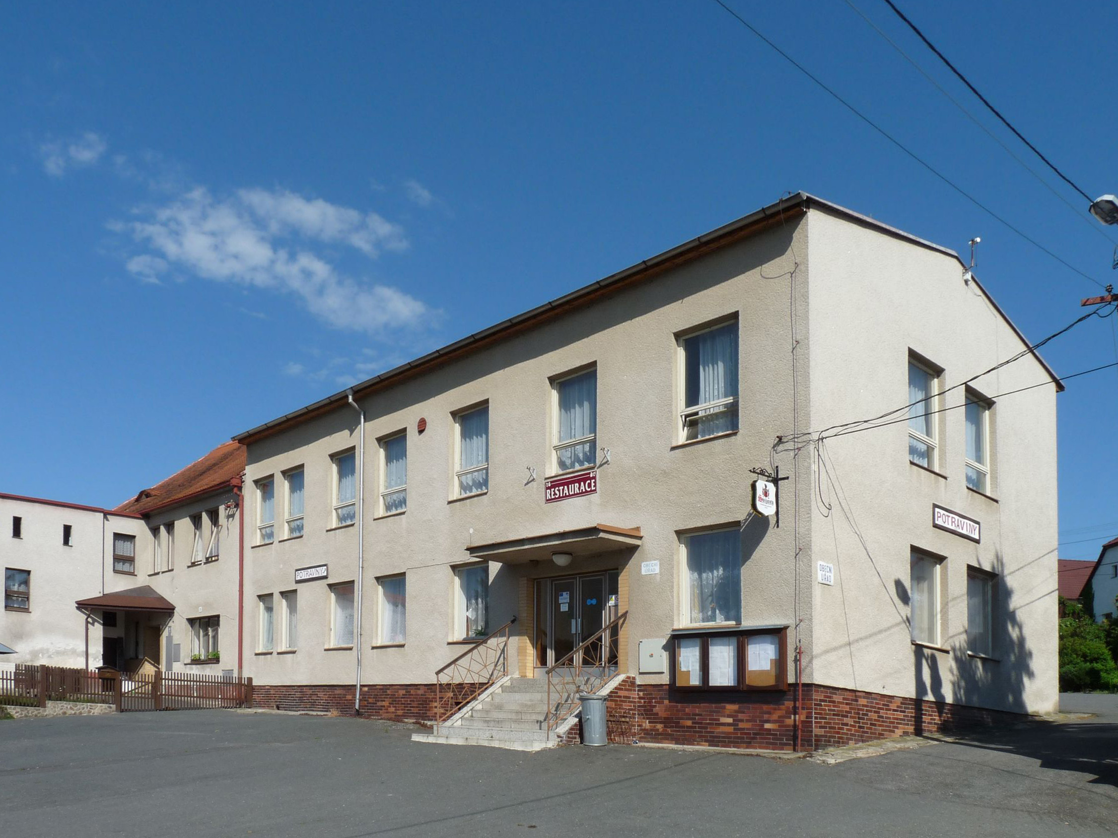 Municipal office building and a local restaurant in the municipality of Čímice, Klatovy District, Plzeň Region, Czech Republic.